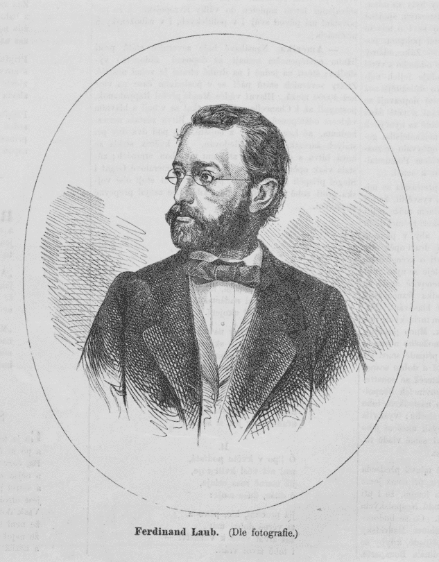 Portrait of Ferdinand Laub (1832 - 1875), Czech violinist.